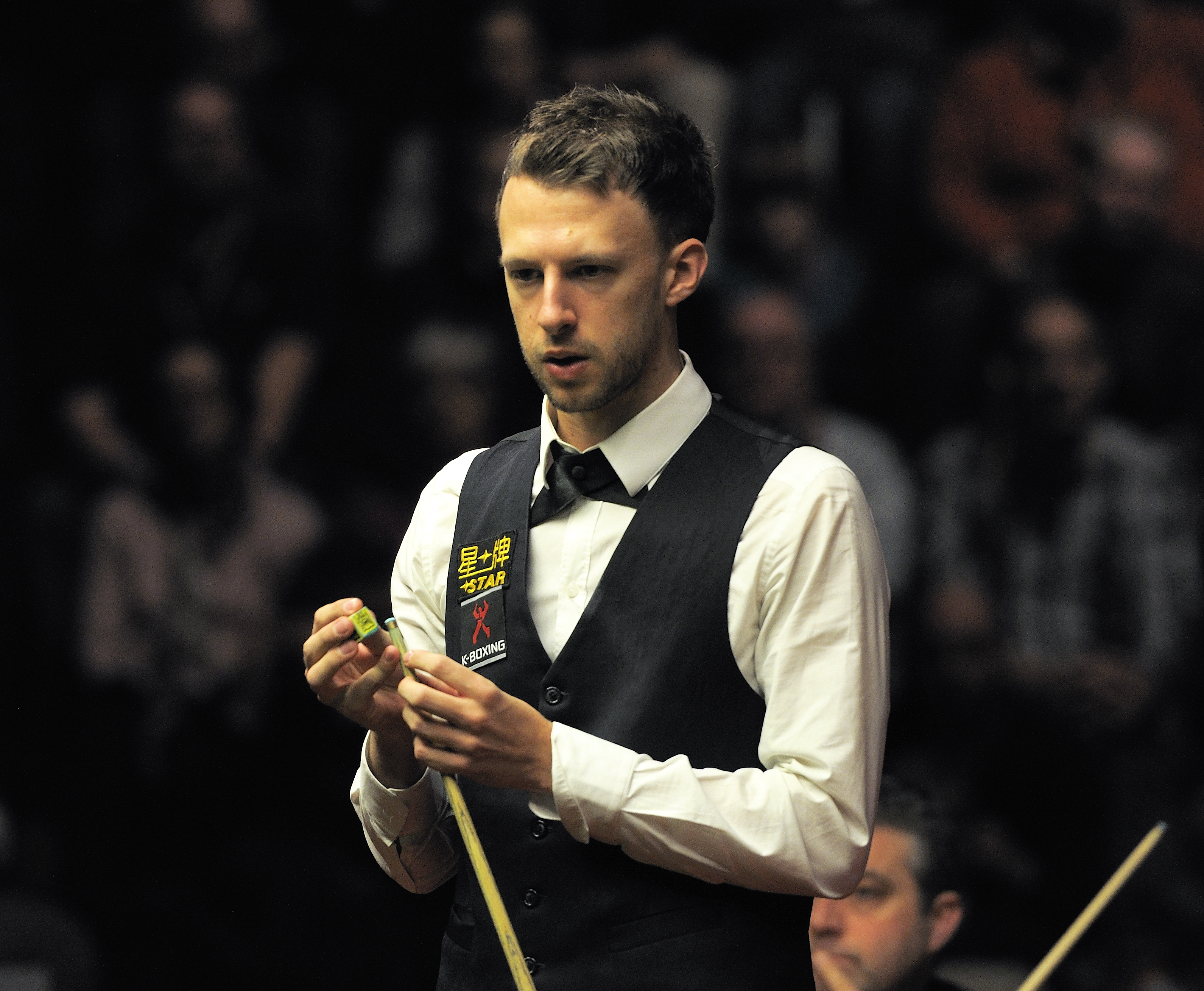 Picture taken in Berlin during the Snooker German Masters in 2014. Judd Trump.